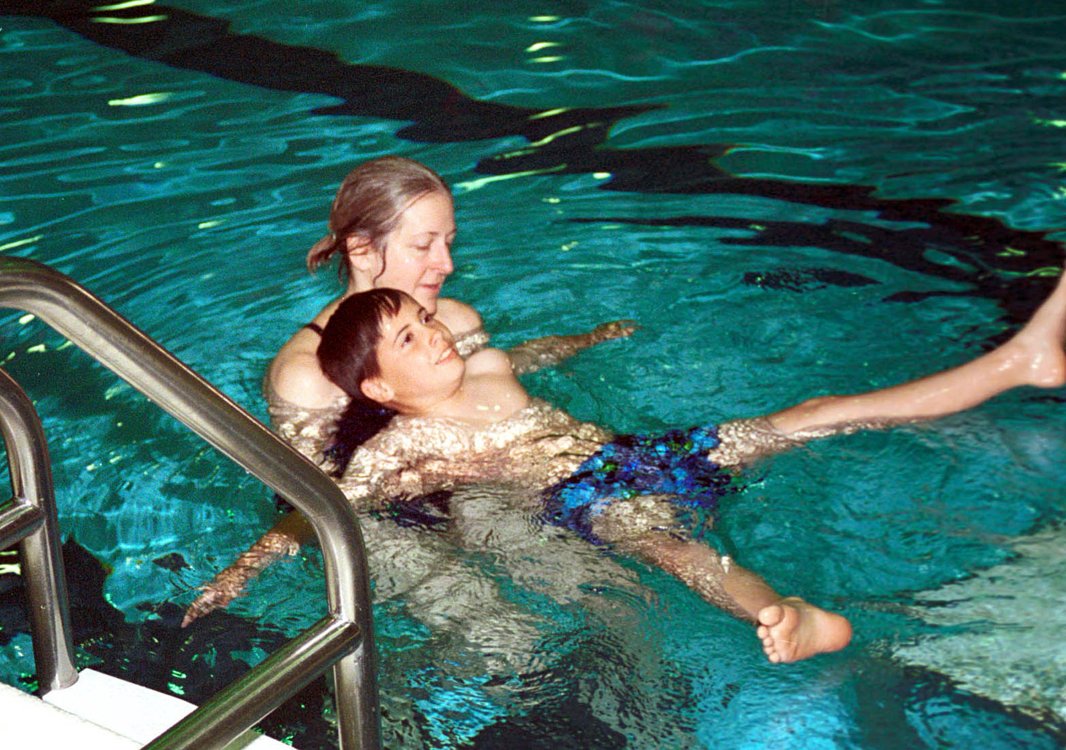 Mary Beth Whyther, a swimming instructor at Naval Air Station Keflavík’s swimming pool, helps one of her students with his floating technique. The pool offers a variety of swimming lessons under the watchful eye of their trained and certified lifeguards and swimming instructors.